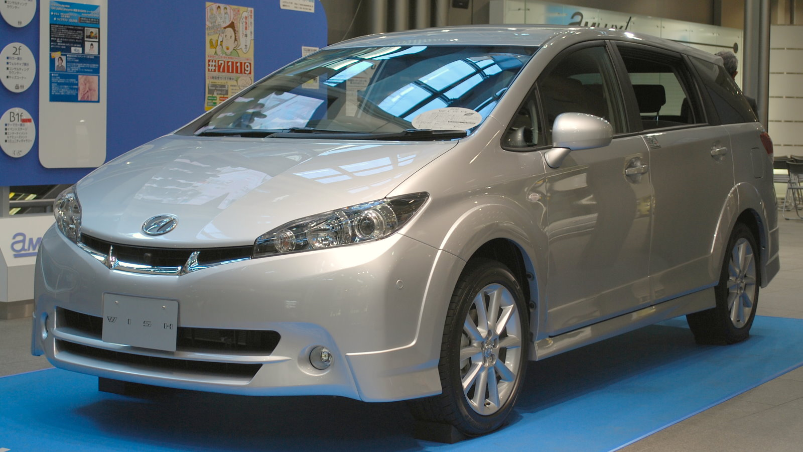 2nd generation Toyota Wish (2009/4 - ) 2.0Z